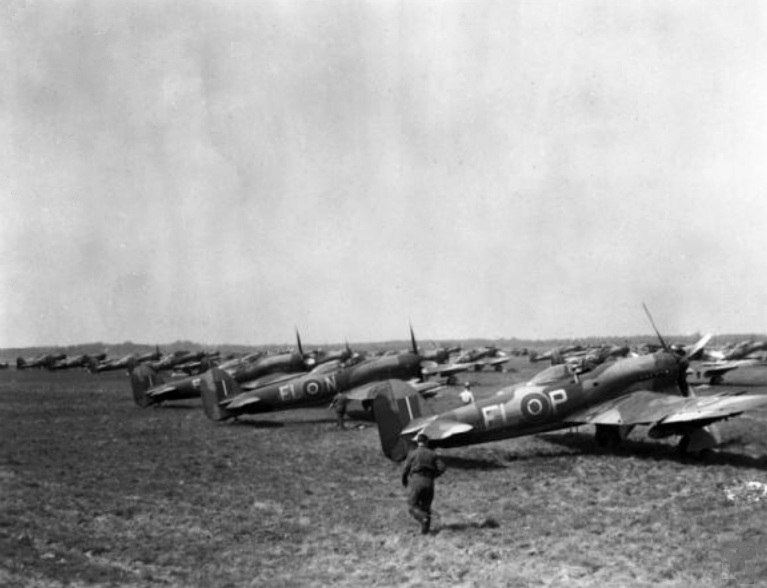 Royal Air Force Hawker Typhoon Mark IBs of Nos. 181 and 137 Squadrons, No. 124 Wing RAF, lined up at B106/Twente, Holland.